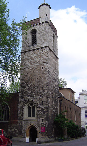 Exterior of St Bartholomew-the-Less, City of London Image by ChrisO